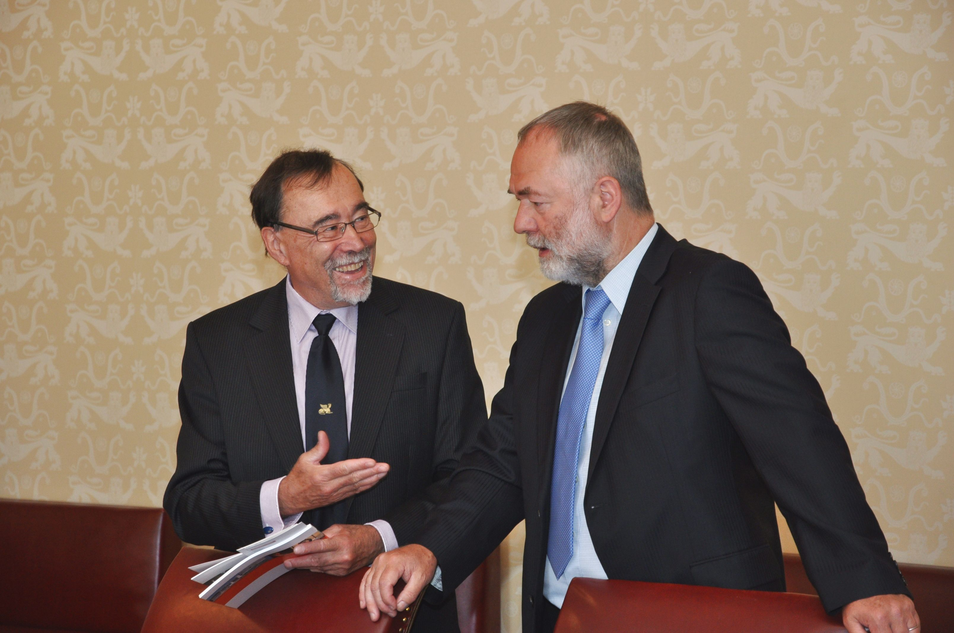 International Learned Committee of Experts of Estonian Institute of Historical Memory held a working meeting.